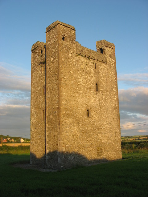 Roodstown Castle, Co. Louth The projecting tower at the north-west angle contains the garderobes; the stair tower is at the south-east.